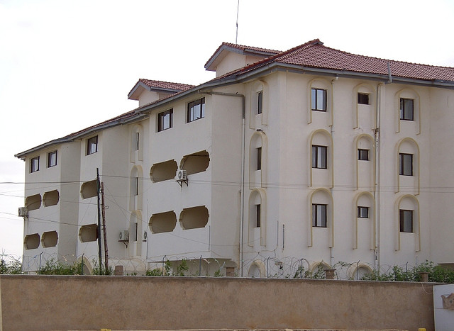 Tall building in Garowe, the administrative capital of the Puntland region in northeastern Somalia.